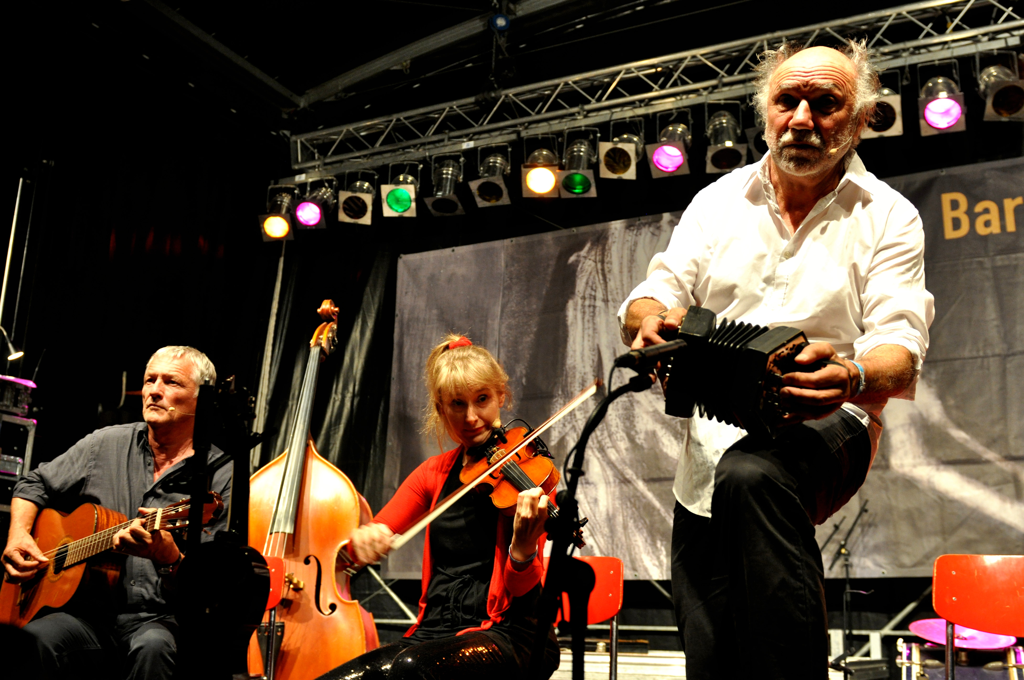 Bairisch Diatonischer Jodelwahnsinn (D), Sebald Square stage, 40th music festival 'Bardentreffen' 2015 at Nuremberg, Germany Festivalsommer This photo was created with the support of donations to Wikimedia Deutschland in the context of the CPB project "Festival Summer".